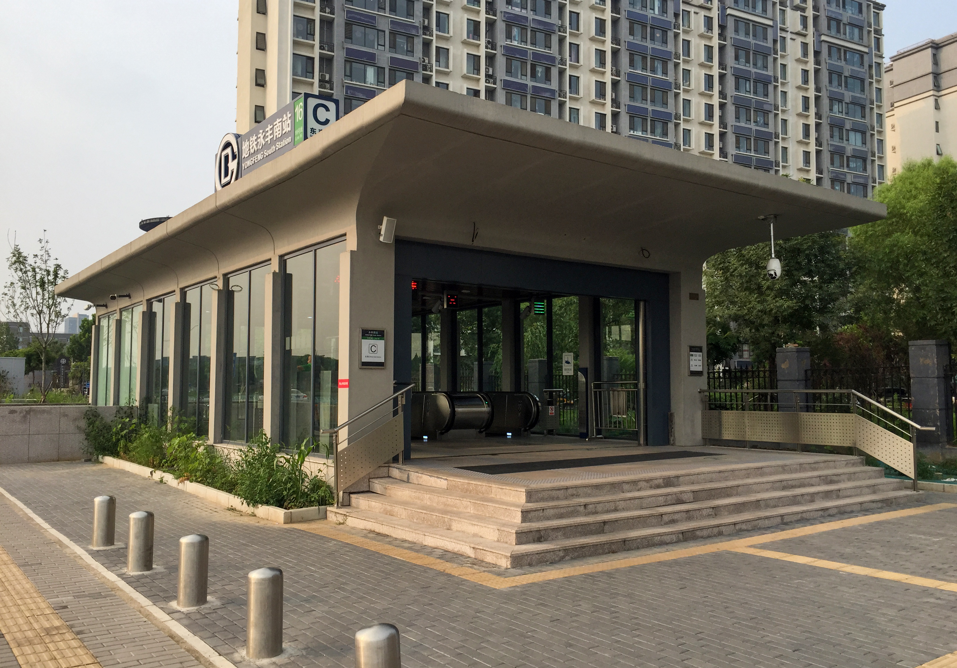 This doesn't have a lift.